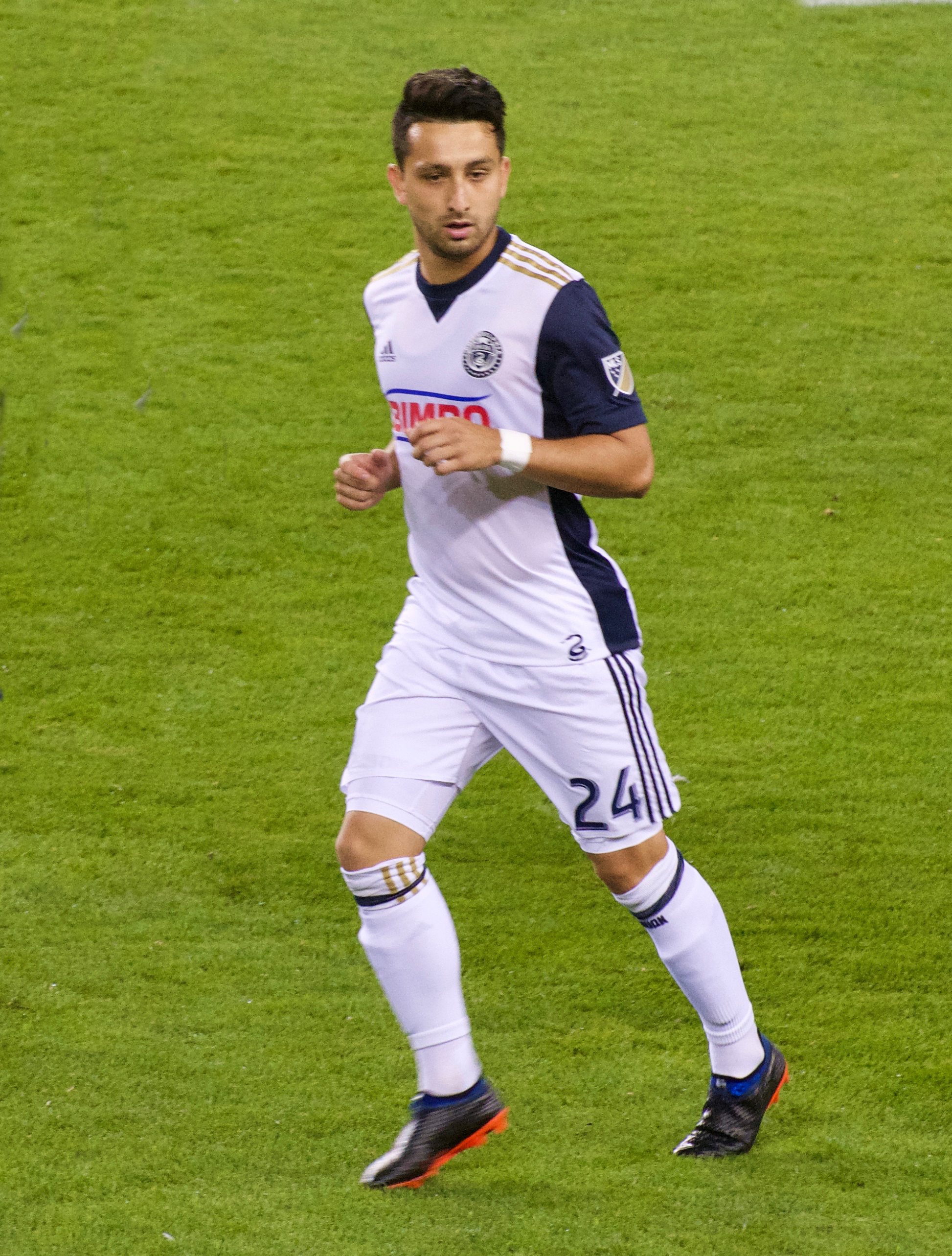 Adam Najem playing for Philadelphia Union at Avaya Stadium on 19 August 2017.